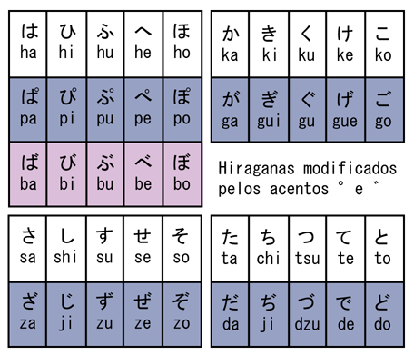 hiragana punctuation table small